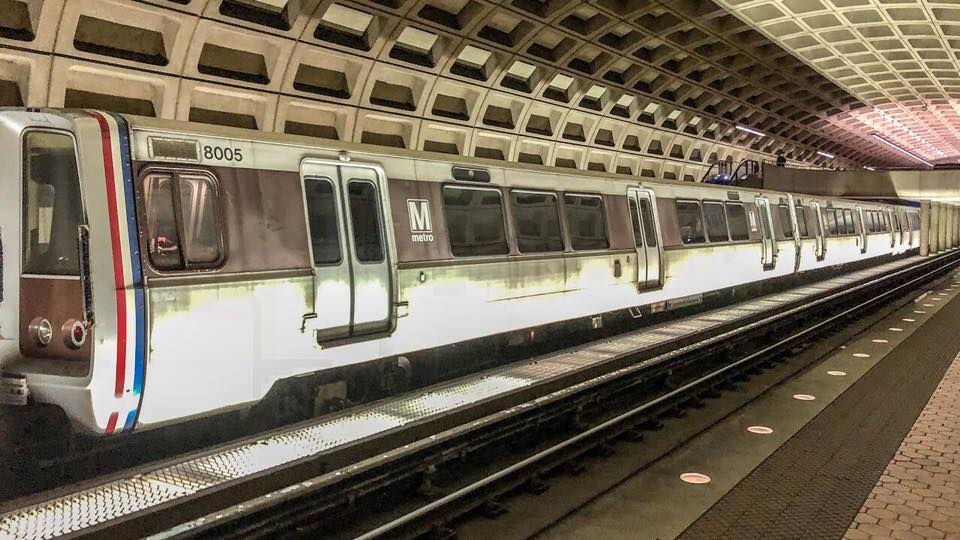 WMATA Rohr 8005 at Pentagon City. 8004-8005 were formally cars 1092-1093 that were converted in 2016 meaning they're the only rehabilitated Money Train Rohr cars in the system.